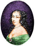 Duchesse d'Aiguillon (1604-1675)